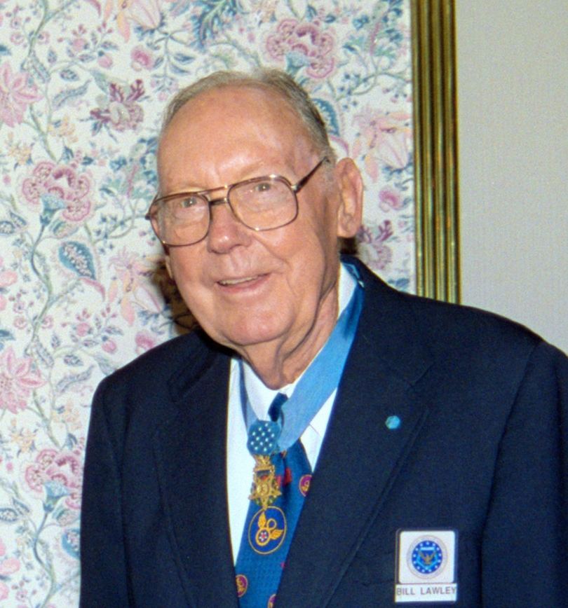 Medal of Honor recipient First Lieutenant William R. Lawley, Jr., Retired, at a Medal of Honor Society Luncheon.